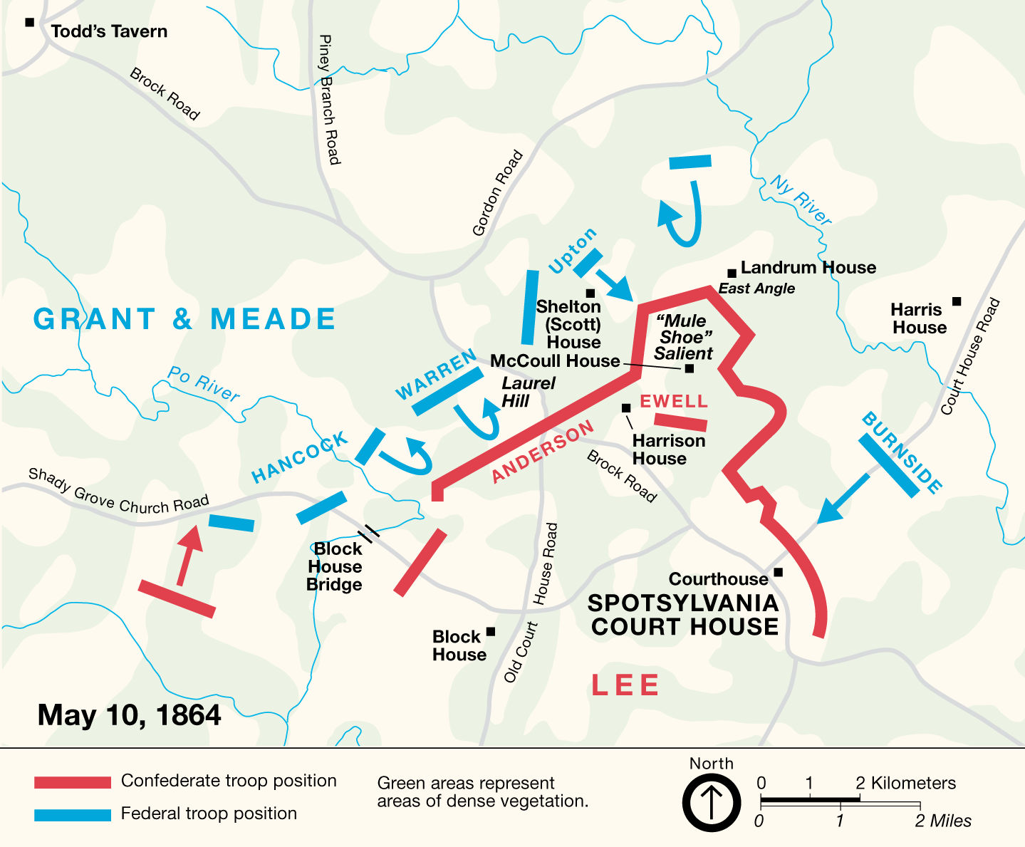 National Park Service map of the American Civil War Battle of Spotsylvania Court House, actions on May 10, 1864.